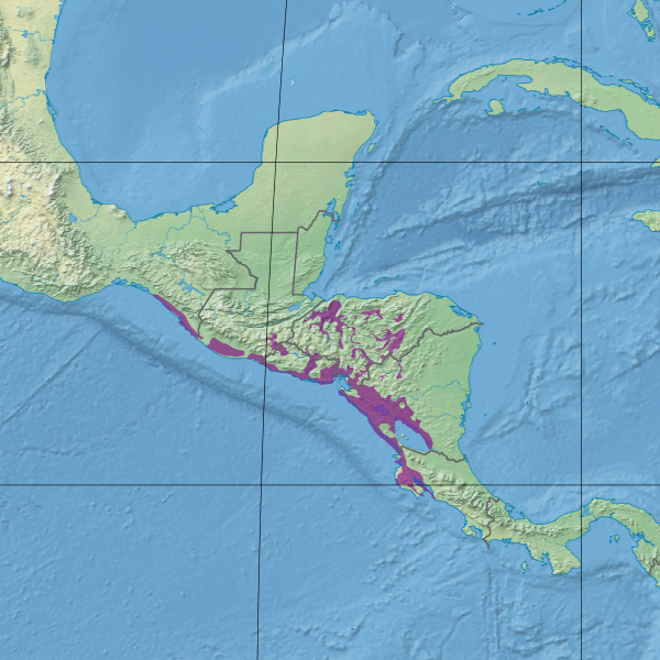 Ecoregion NT0209 - Central American Dry Forests (in purple)